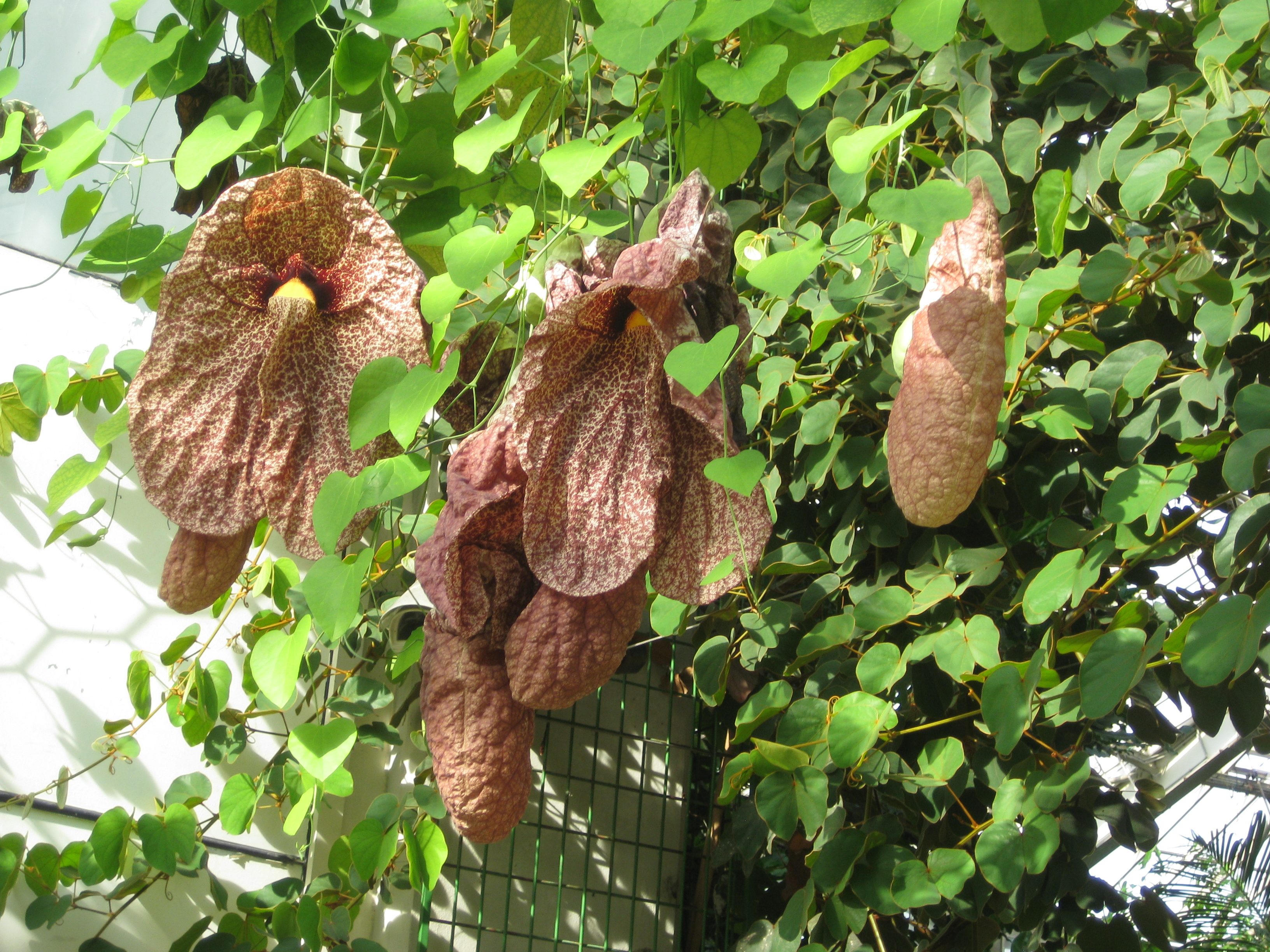 2012-10-04 Aristoloche (aristolochea gigantea) in Parc Phoenix greenhouse